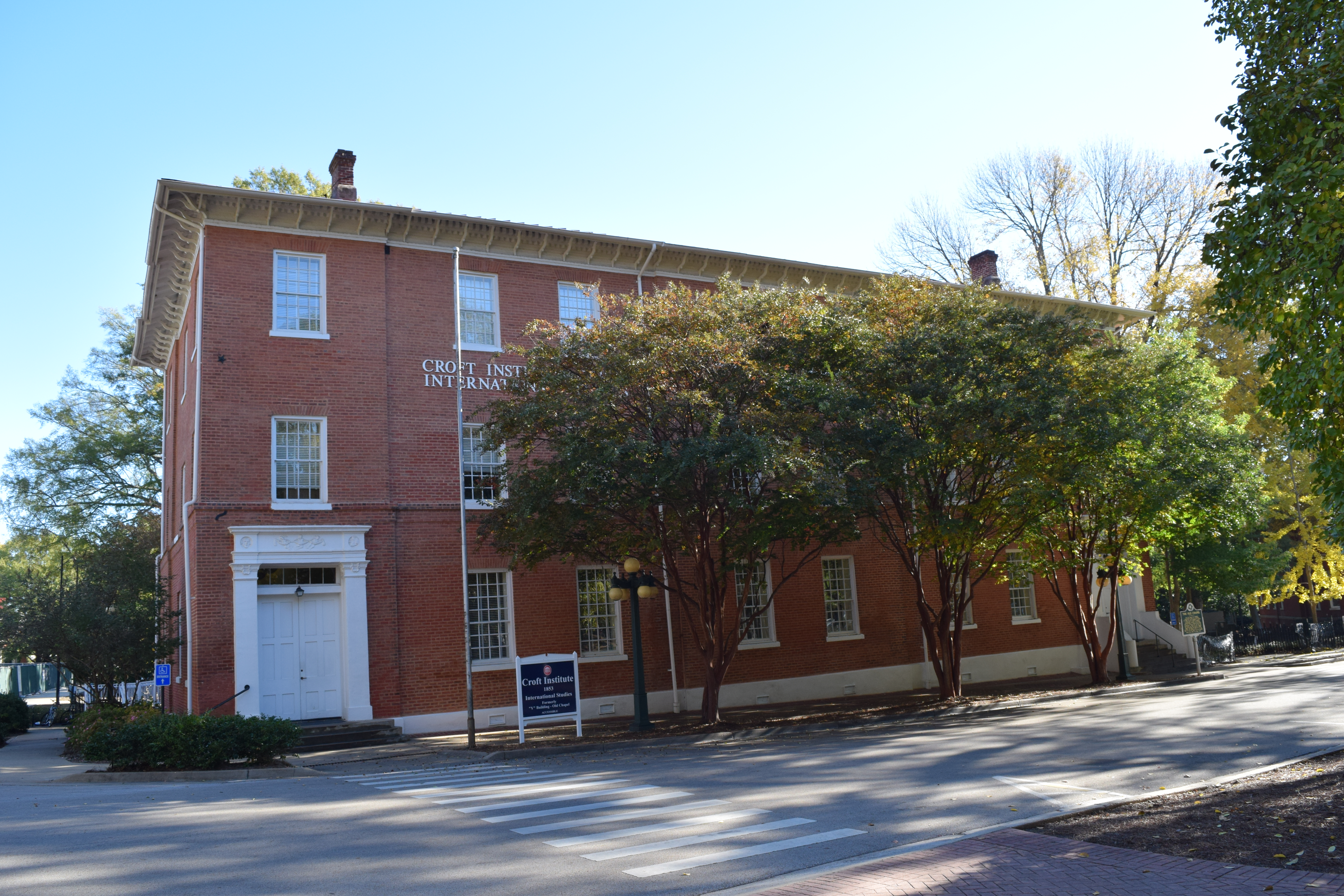 The Croft Institute of International Studies along the Circle on the University of Mississippi campus